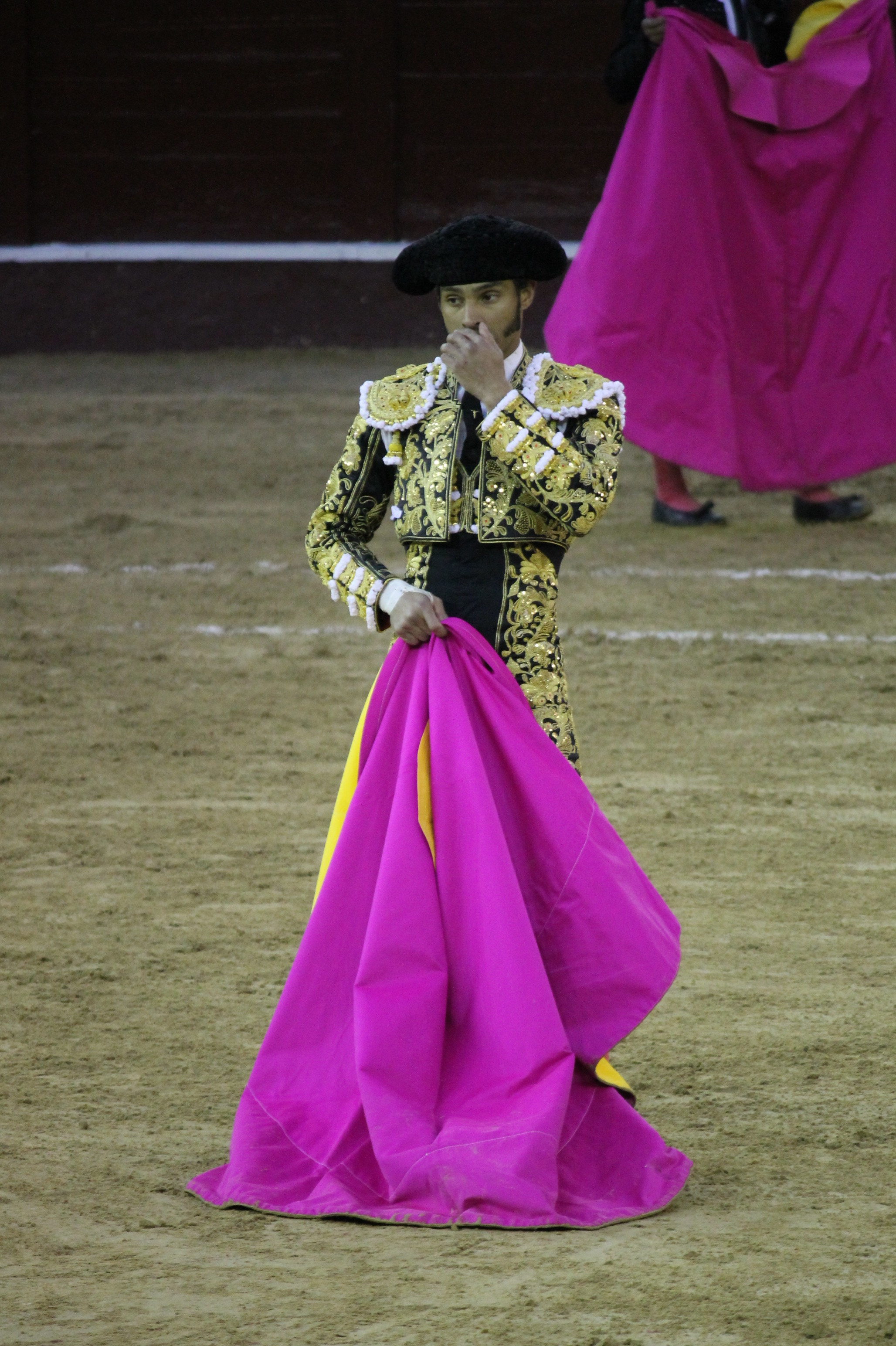 Luis Bolívar en Bogotá